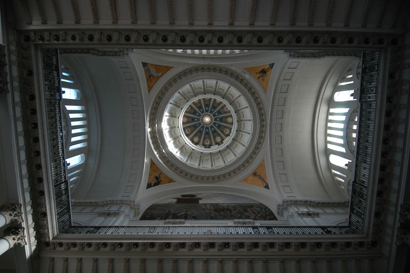 Dome of the Revolution Museum in La Habana (Cuba), september 2005